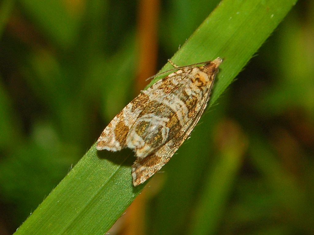 Celypha rivulana